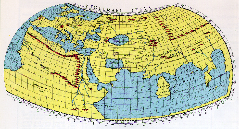 A world map after a 1564 Venetian edition of Ptolemy's Geography.